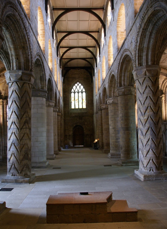 Dunfermline Abbey, Fife, Scotland - inside the nave, from the east